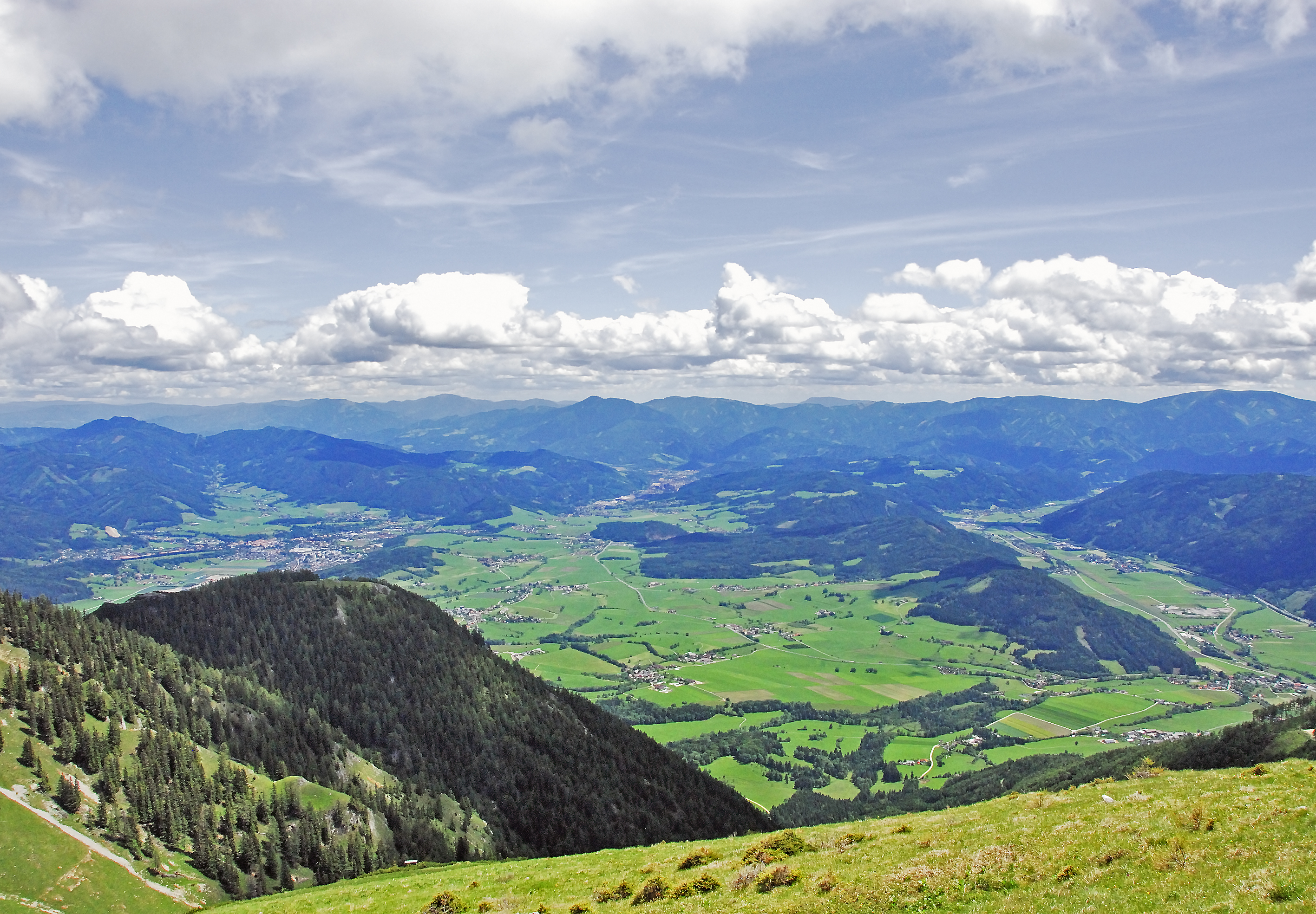 Trofaiach basin as seen from mount Reiting (1849 m) to the east, Styria, Austria. Leoben is at 16 km.